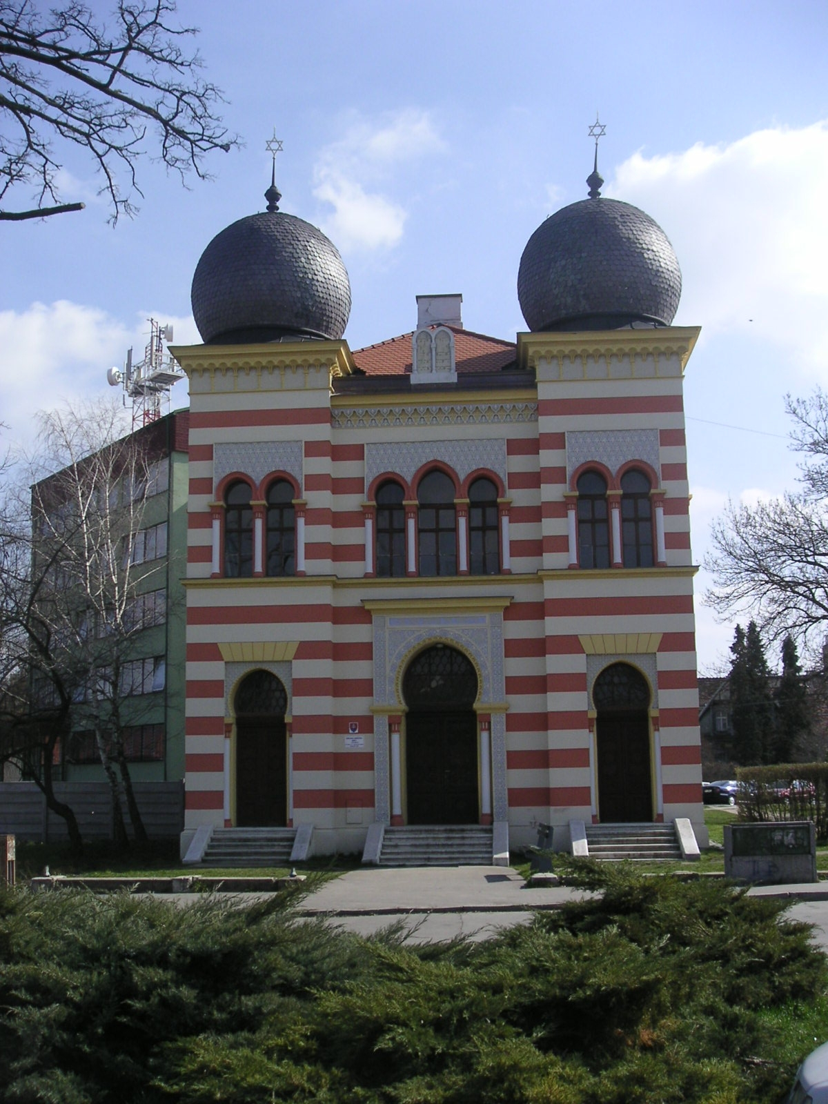 Synagogue at Malacky, Slovakia This medium shows the protected monument with the number 106-10733/0 in the Slovak Republic.